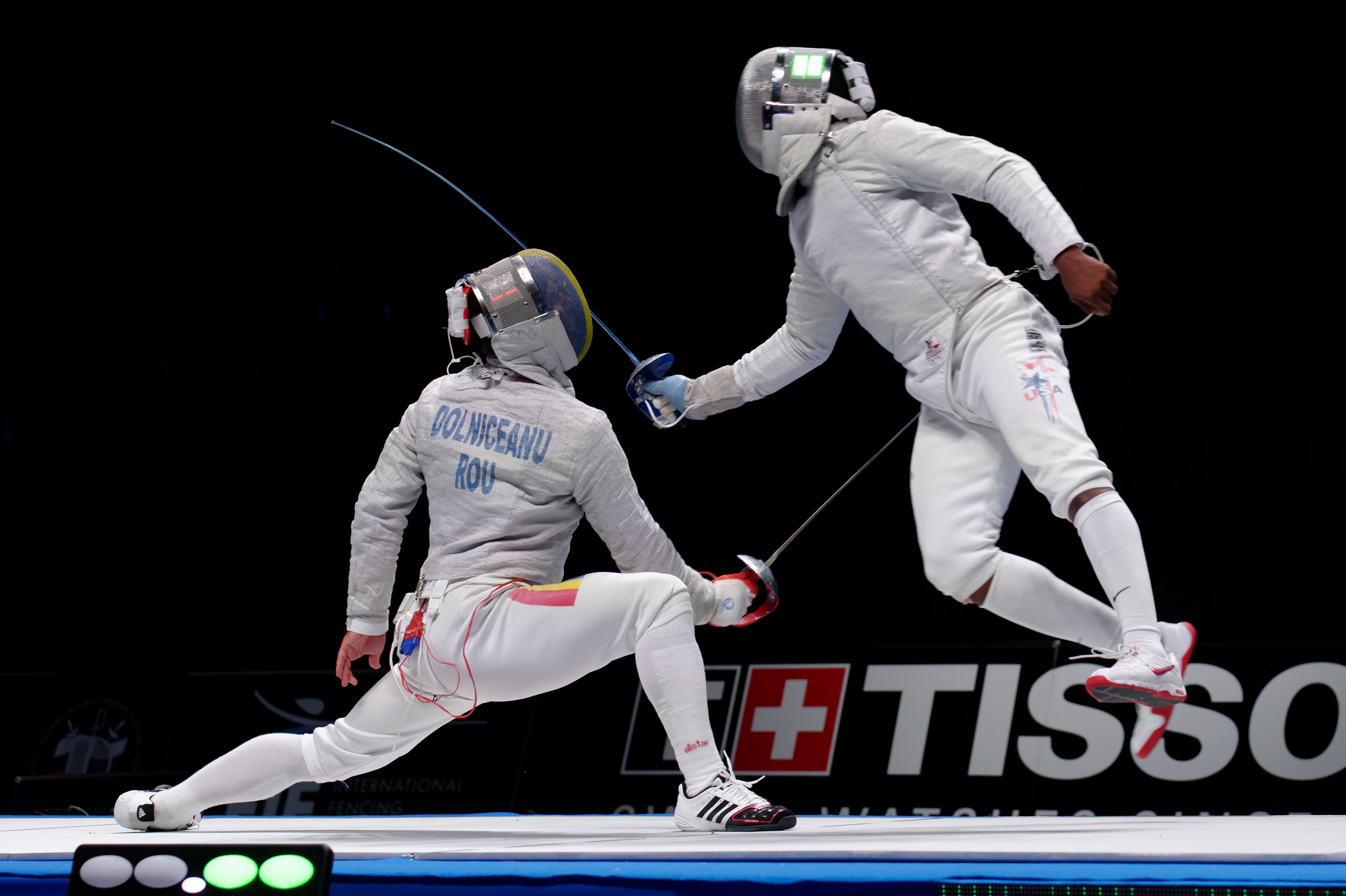 The United States' Daryl Homer (right) scores a hit off Romania's Tiberiu Dolniceanu in the semifinals of the 2015 World Fencing Championships on 14 July 2014 at the Olympic Stadium in Moscow.